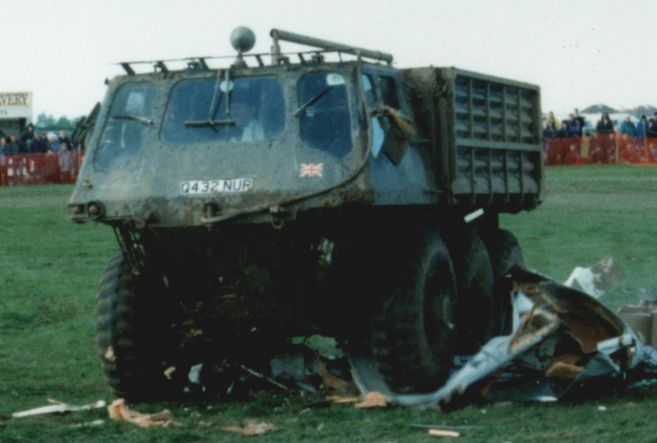 Description: An Alvis Stalwart and the remains of a caravan it decimated. Source: family photograph of the uploader. Camera: Pentax SLR